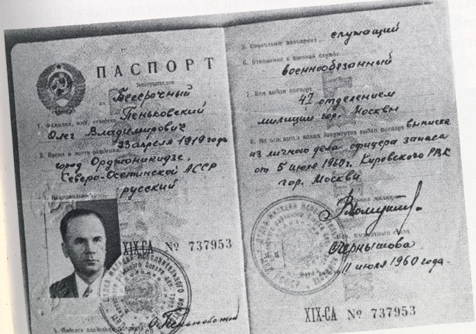 Penkovskiy Passport